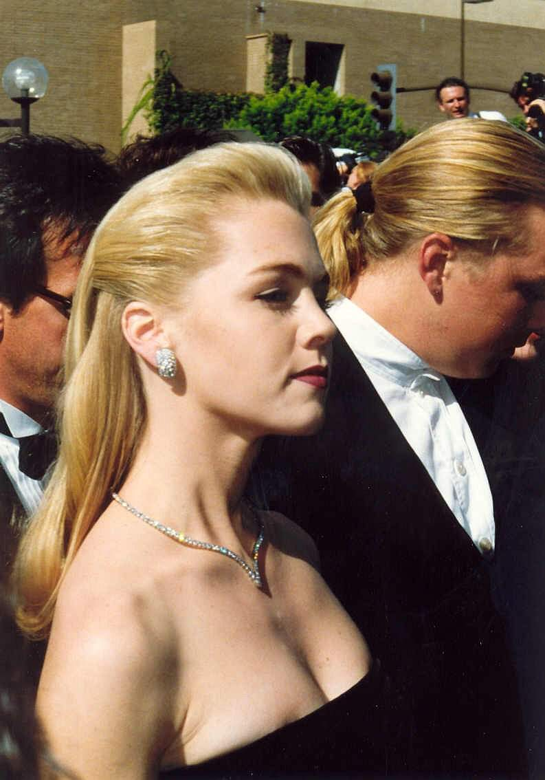 Jennie Garth (star Beverly Hills, 90210) at Emmy Awards 1992